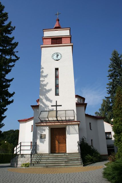 Protestant church in Třanovice, Czech Republic. Built in 1929-1931. Architect: Tadeusz Michejda.